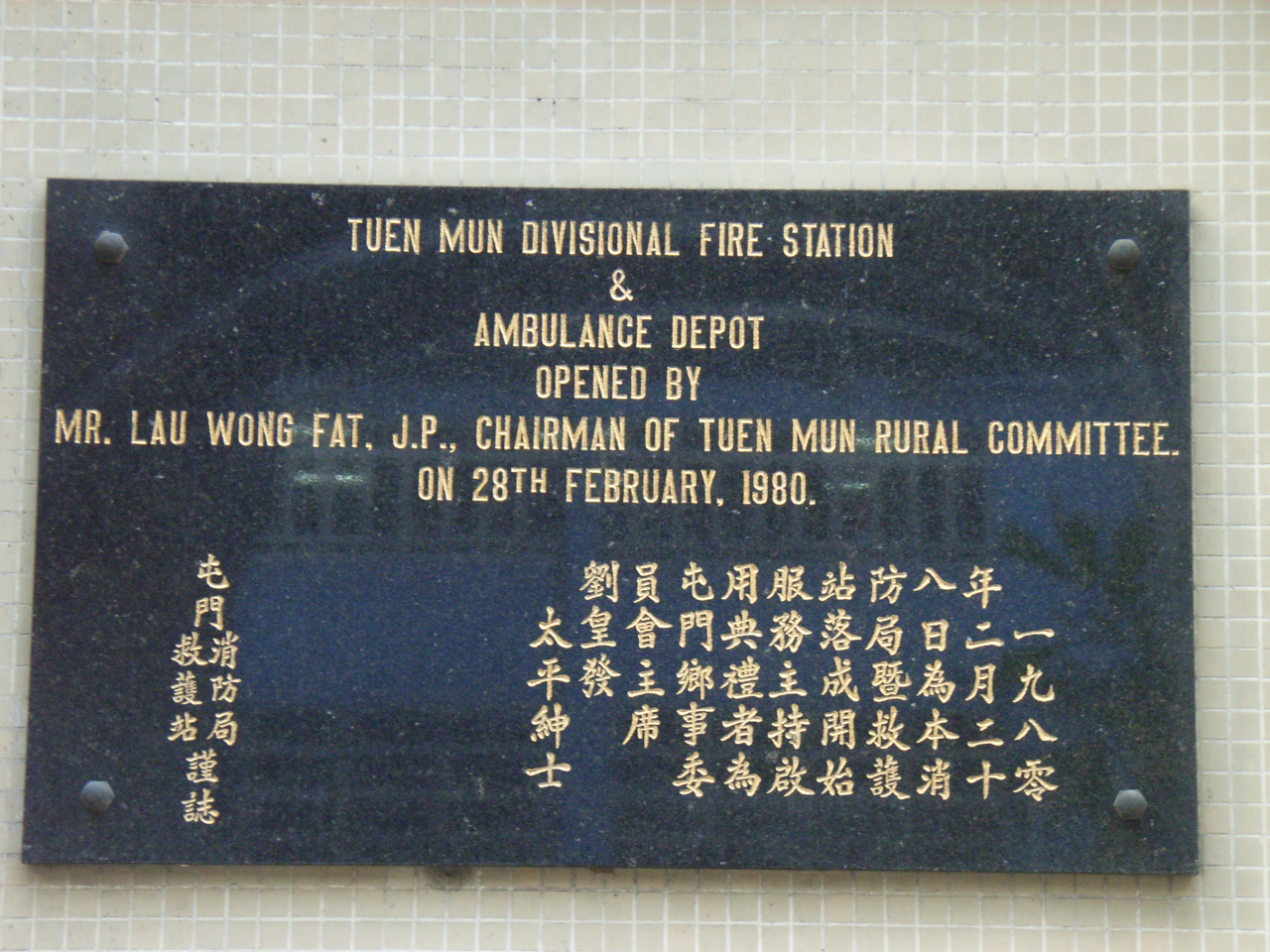 屯門消防局, Tuen Mun Divisional Fire Station, 102 Pui To Road, 杯渡路, Tuen Mun, New Territories, Hong Kong. (Photo created by User:TUmuMATo)。